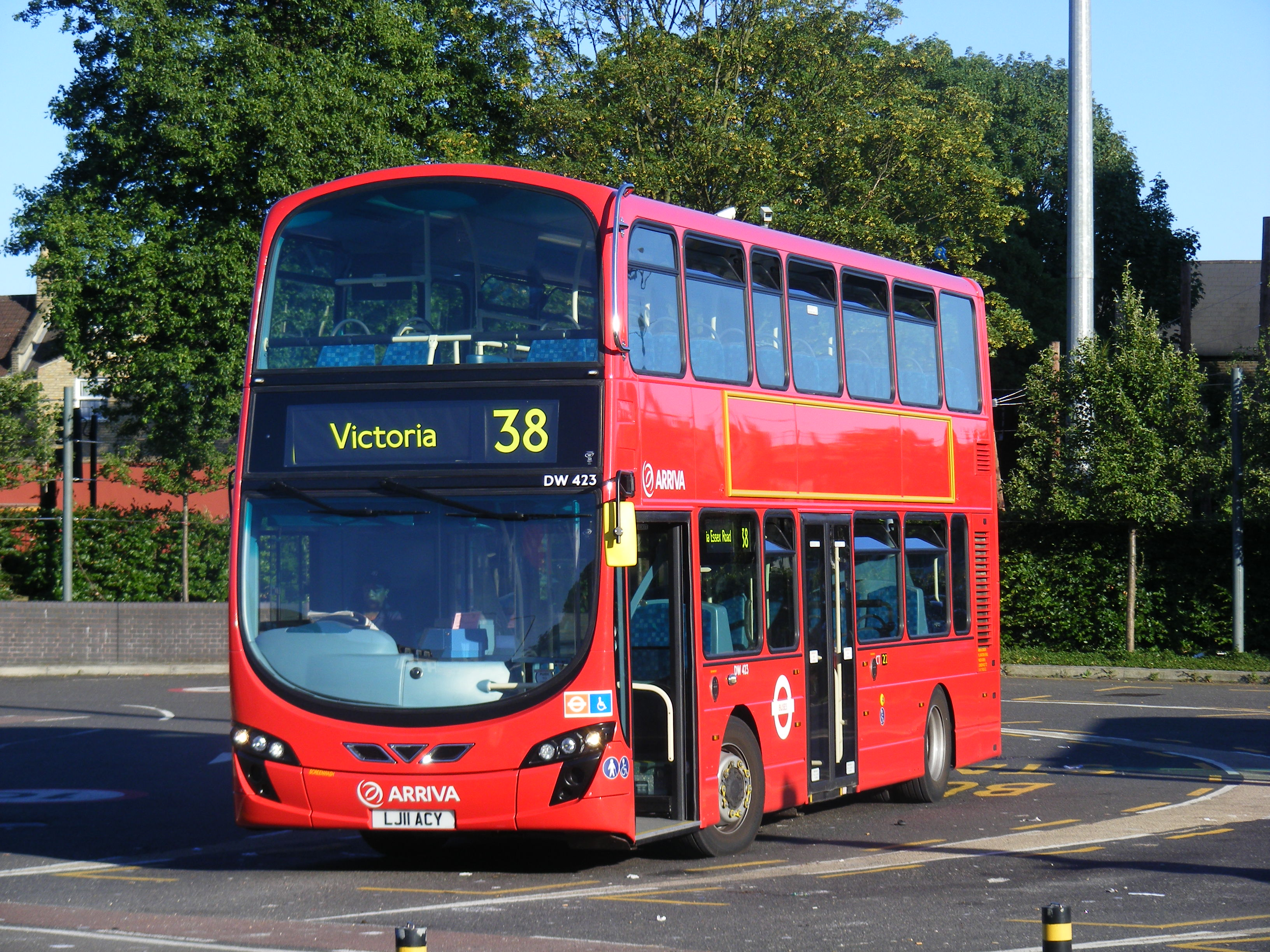 The terminus no longer shared with the 488 or indeed the T-class which these new Wrights vehicles have displaced.